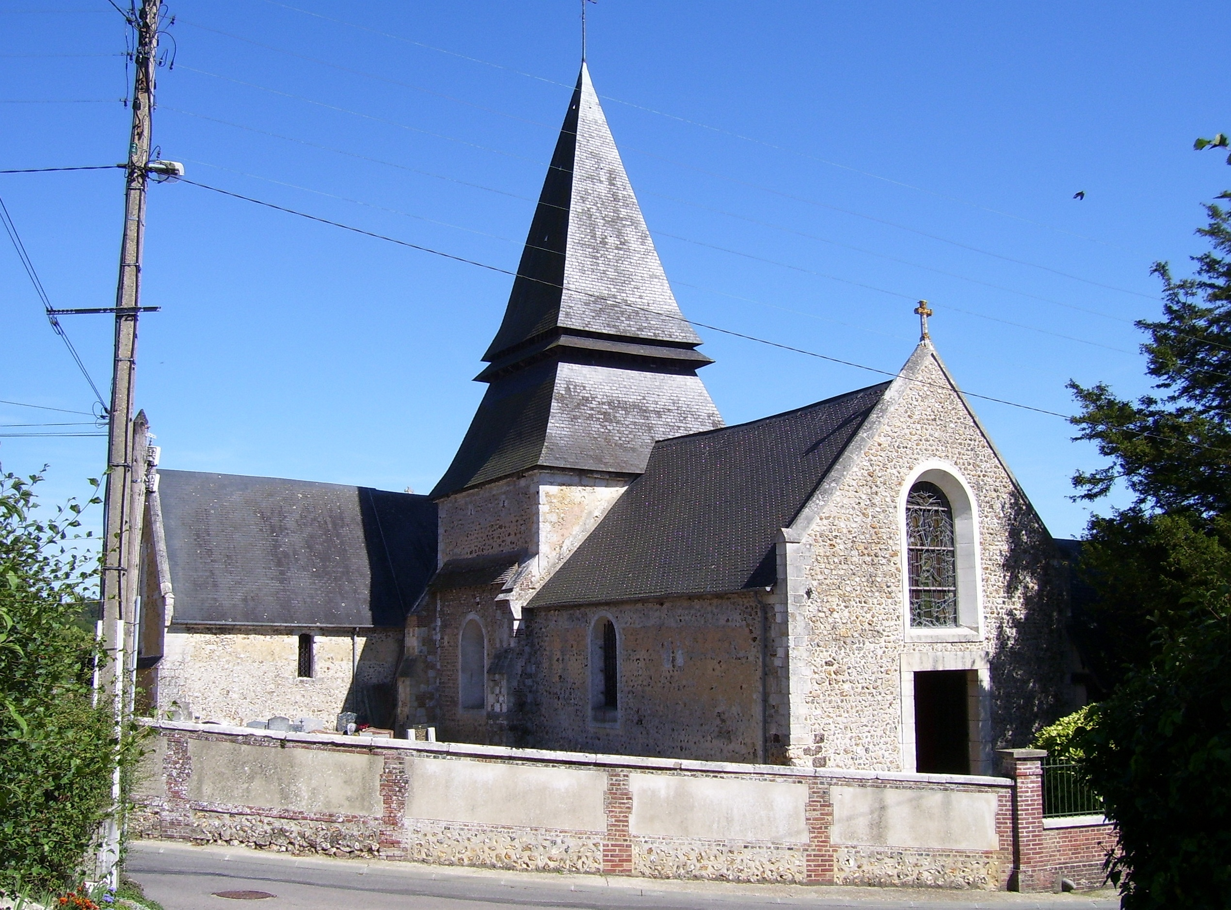 Church Saint Pierre of Menneval. The nave was built in the 12th century, the arch in the 13th century, choir 14th century, portal 16th century.